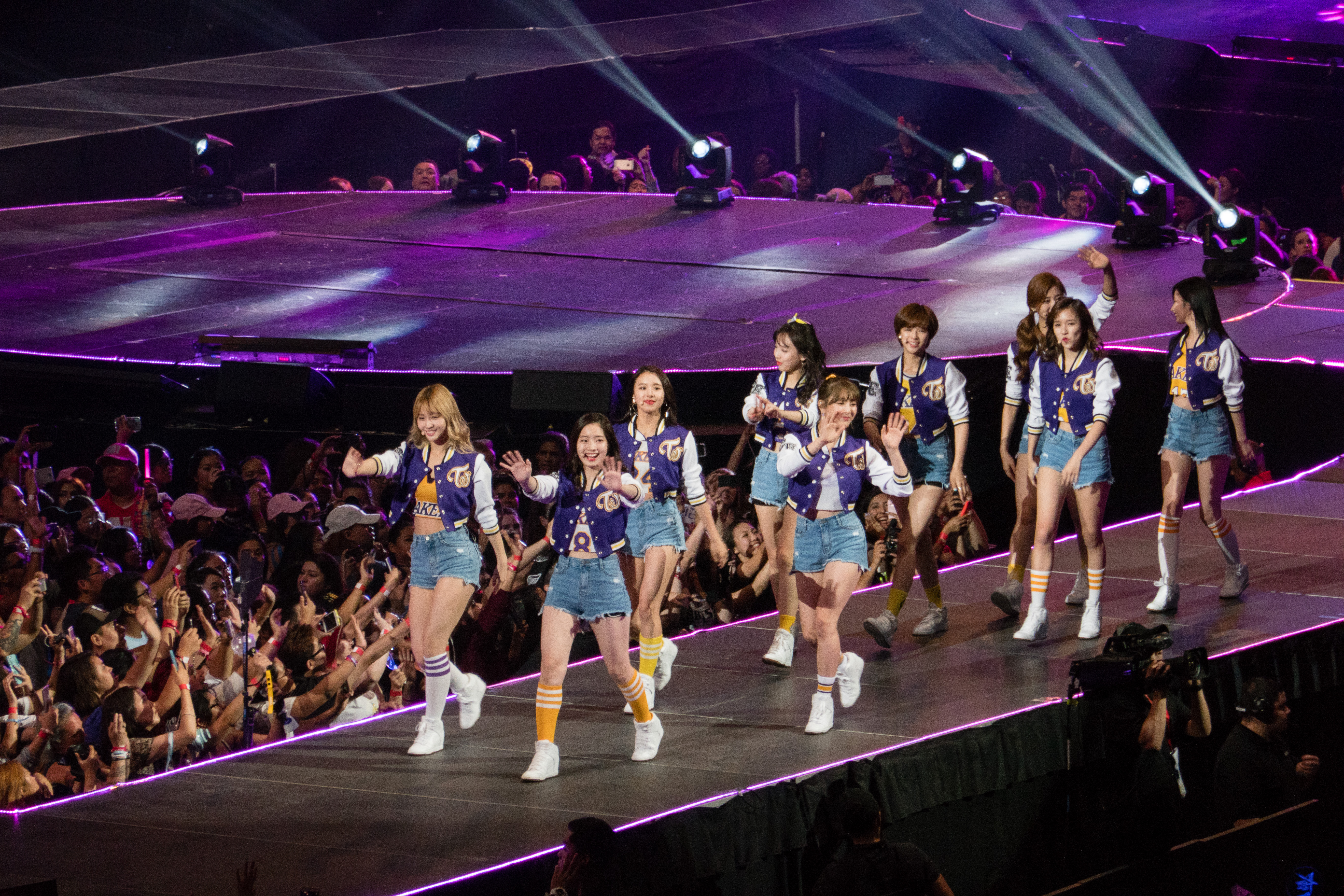 Twice (트와이스) live at KCON16 LA